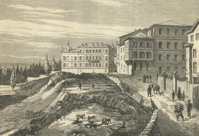 Hôtel d'Angleterre, a hotel in Beyoğlu